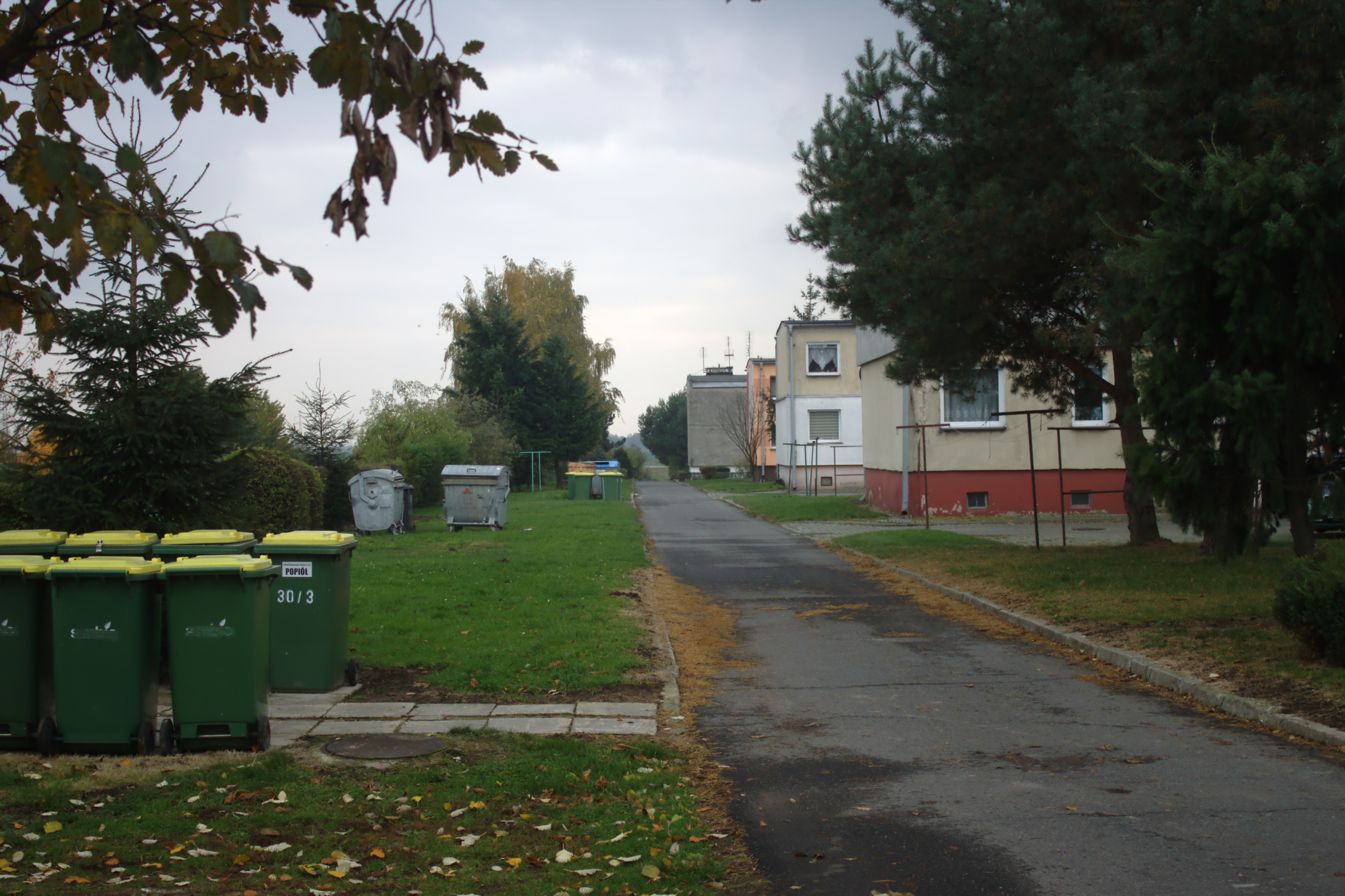 Głubczyce-Sady residential area, Poland